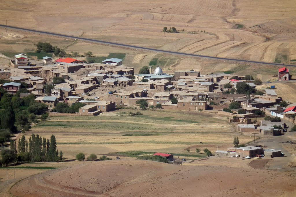 ChālHoma Village in Shazand County.